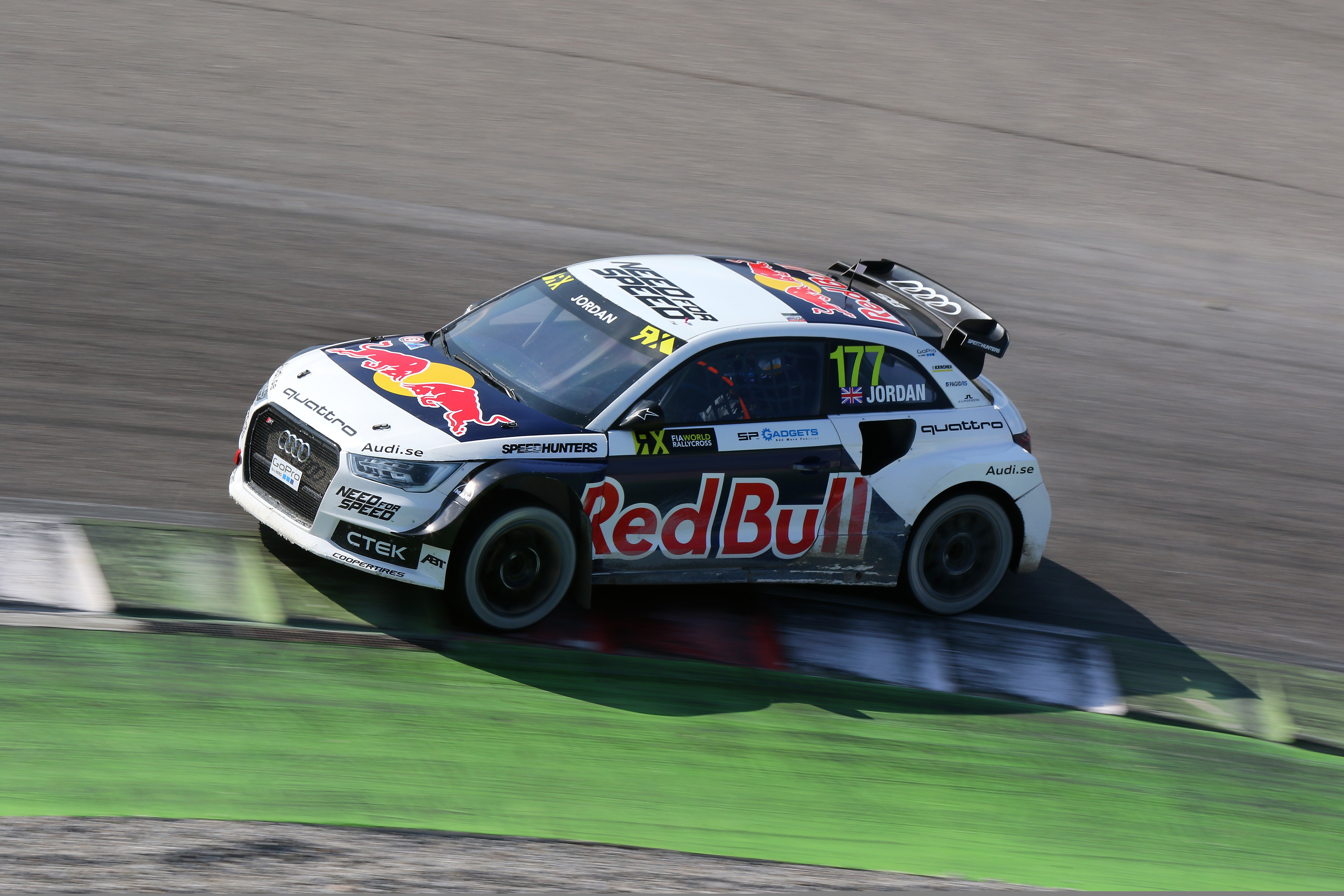 2015 FIA World Rallycross Championship // Round 12 // Franciacorta, Italy // 16-18 October 2015 // Worldwide Copyright: EKS/McKlein